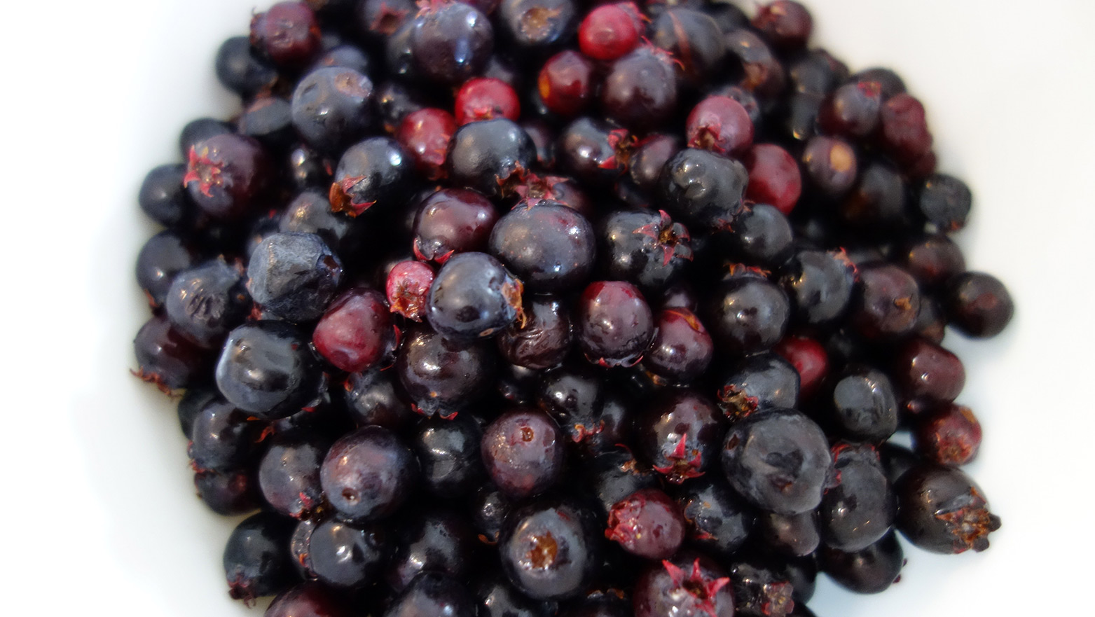 Saskatoon berries picked near Wainwright, Alberta, Canada